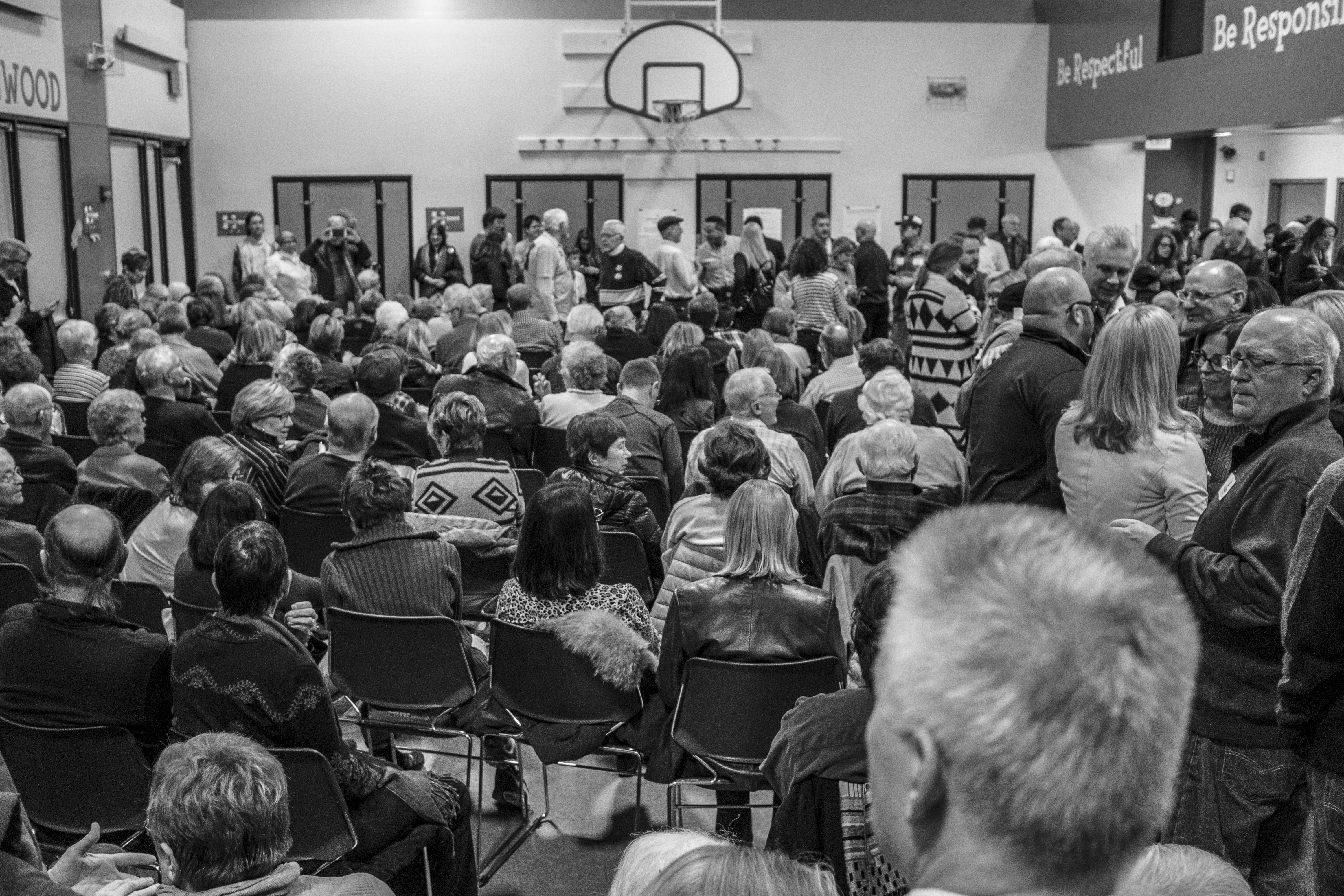 A big crowd is a good problem, until it comes to counting who supports which candidate. Photos from the 2016 presidential caucus in Precinct 61, held at Greenwood Elementary School in Des Moines. Hillary Clinton won 5 delegates to 3 for Bernie Sanders, although the state-wide results we essentially a tie.